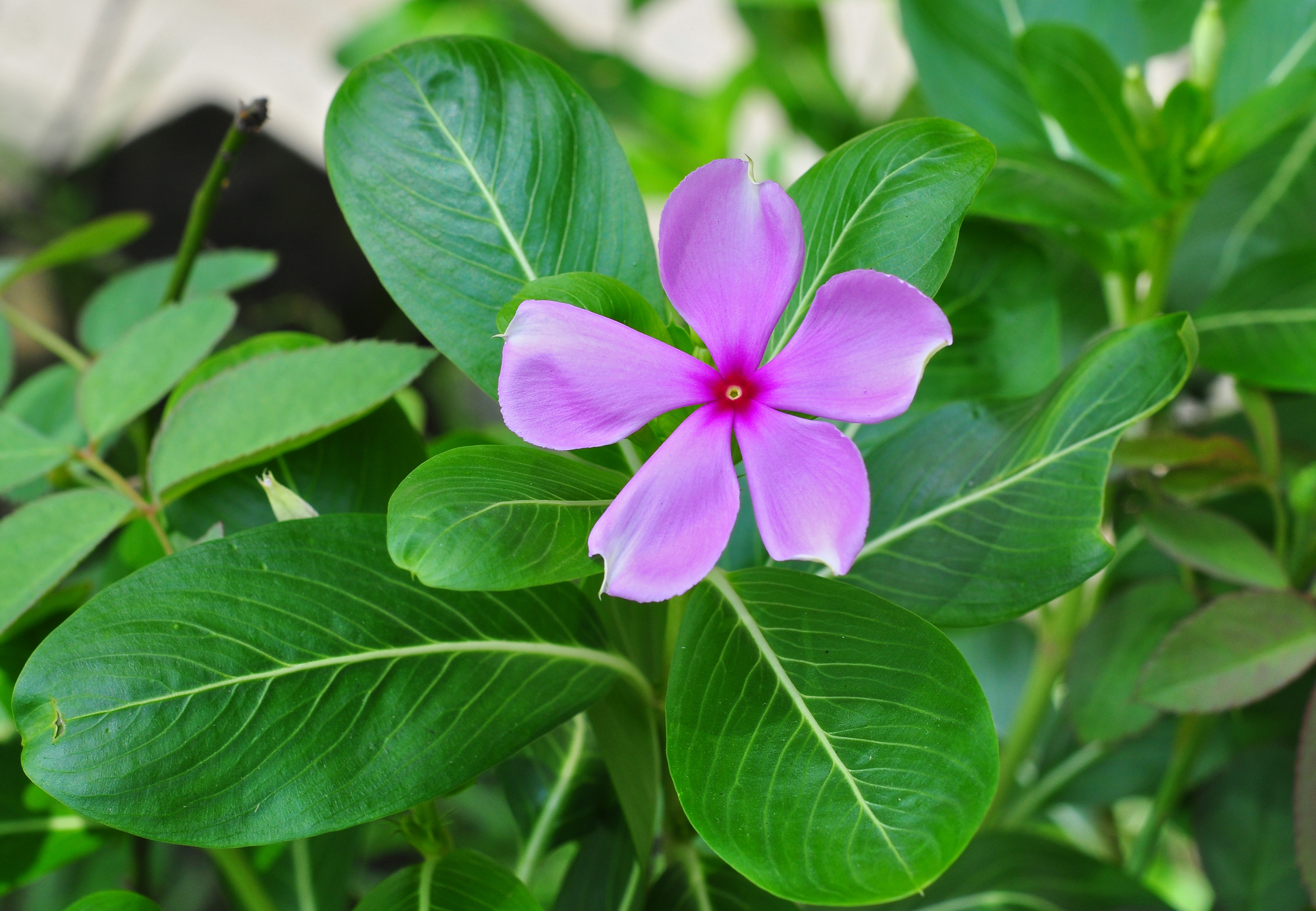 Catharanthus roseus flower.